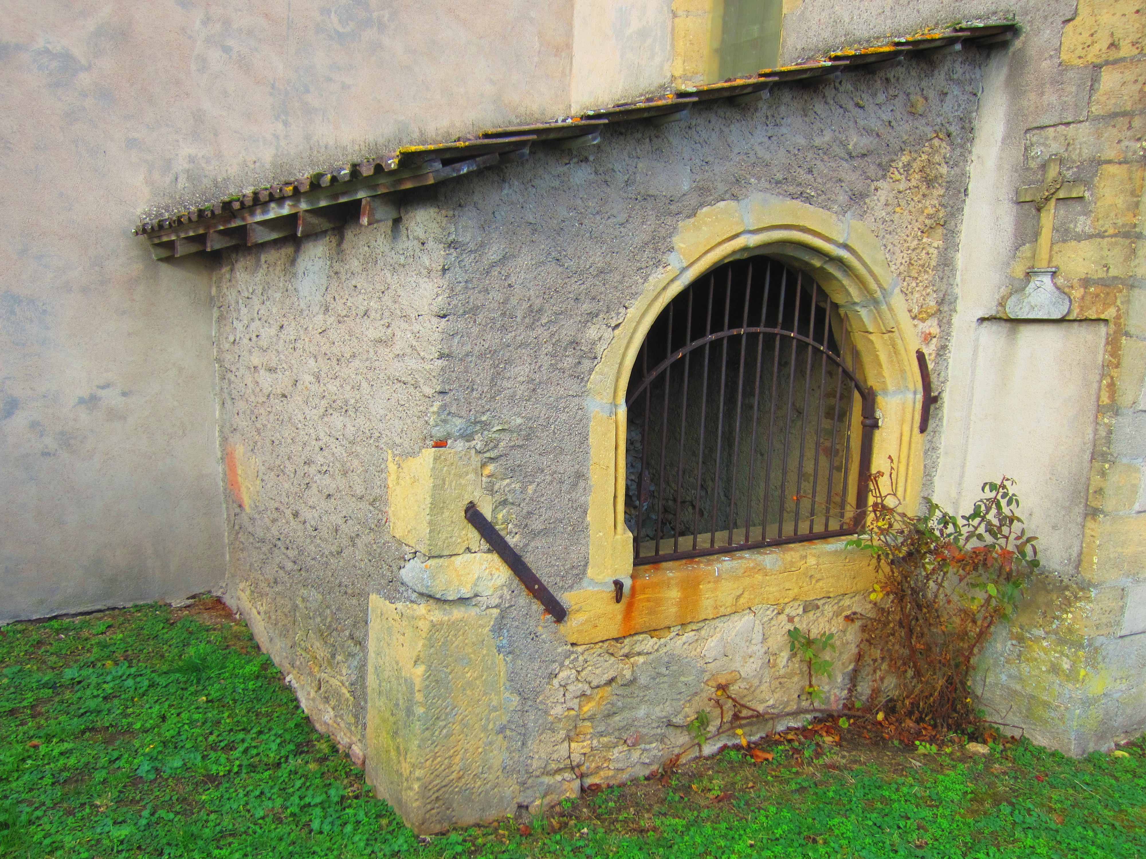 Ossuaire Jouaville